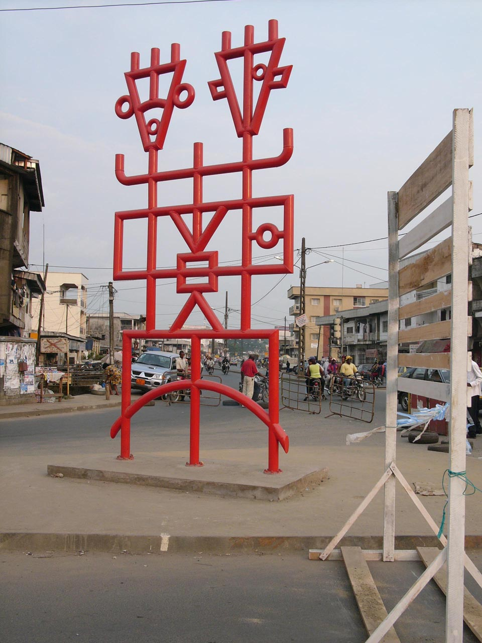 Koko Komégné, Njé Mo Yé, Douala, 2007. Public artwork commissioned by doual'art for the SUD Salon Urbain de Douala 2007. Photo by Christian Hanussek, Douala, 2007.